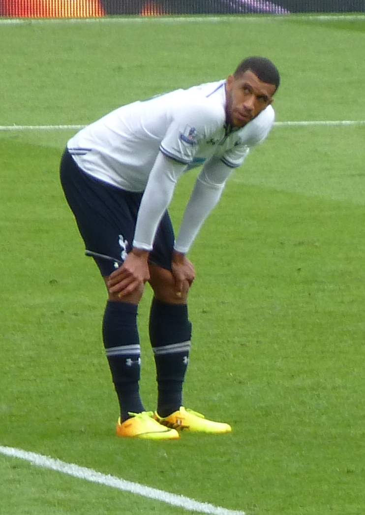 Étienne Capoue playing for Tottenham Hotspur in a match against North London rivals Arsenal.